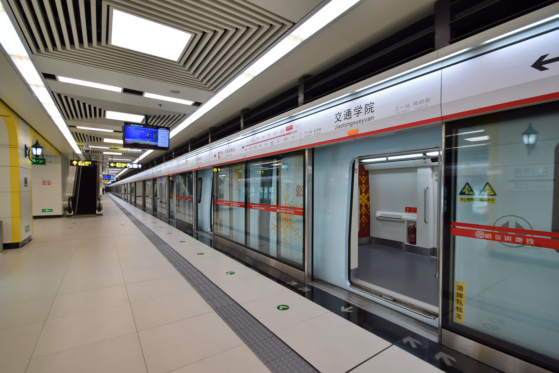 Harbin Metro Line 1 Train at Jiaotongxueyuan Station